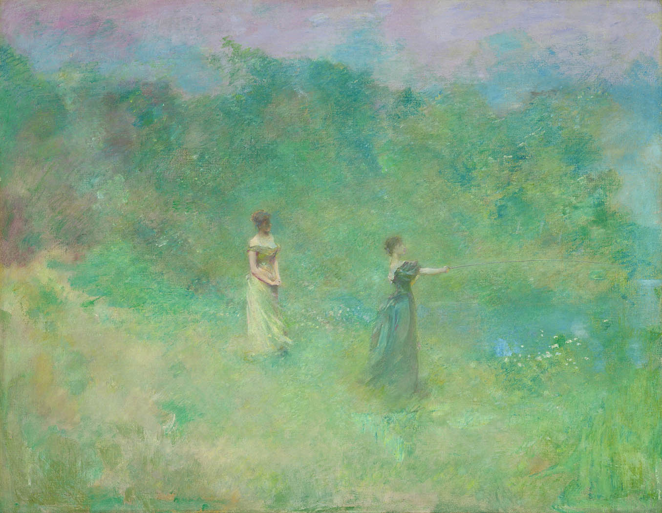 Thomas Dewing: Summer oil on canvas 42 1/8 x 54 1/4 in. (107.0 x 137.8 cm.) Smithsonian American Art Museum Gift of William T. Evans 1909.7.21 Not currently on view